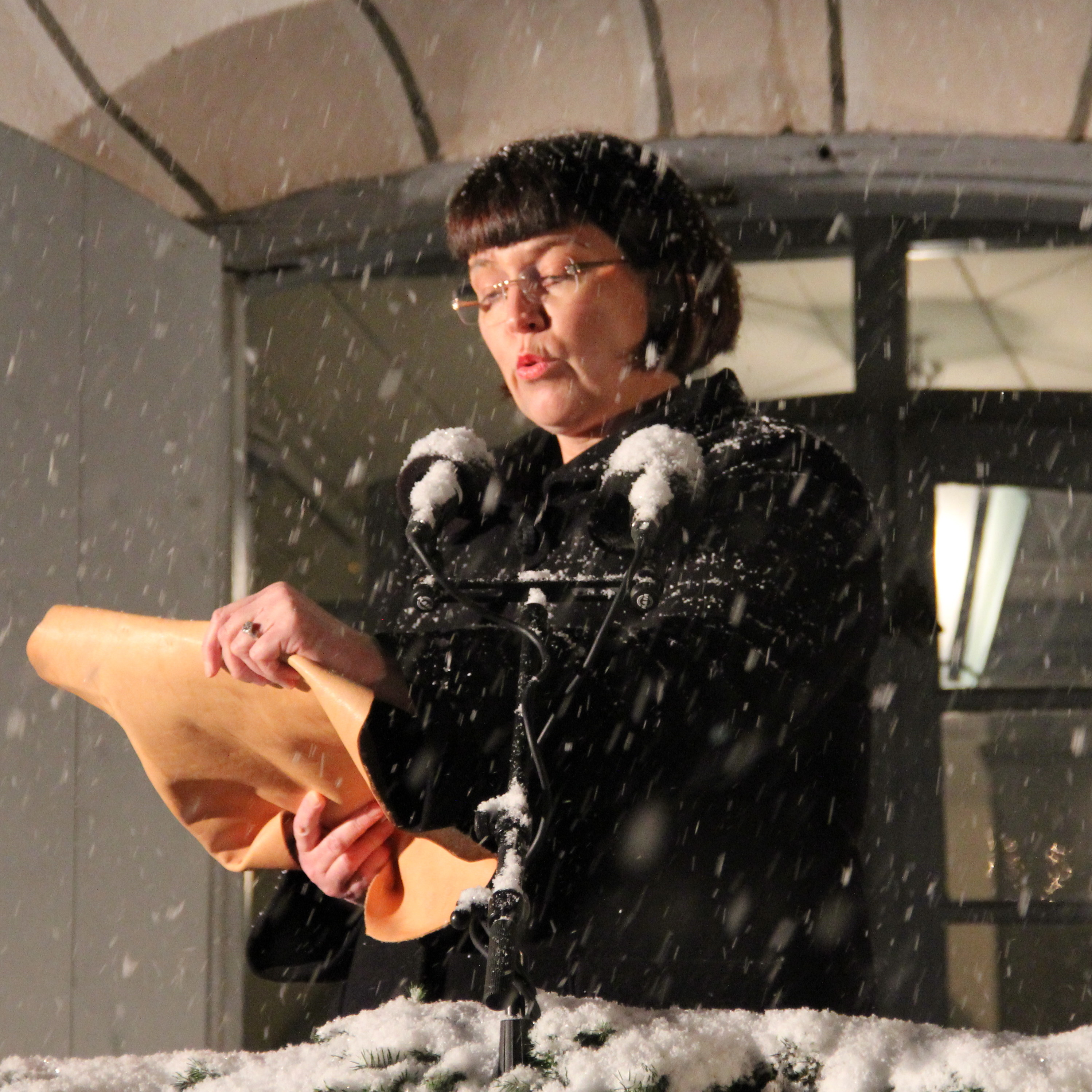 Declaration of Christmas Peace in 2014 in Porvoo, Finland. -The chairwoman of Porvoo City Council, Mrs. Mikaela Nylander is reading the declaration.